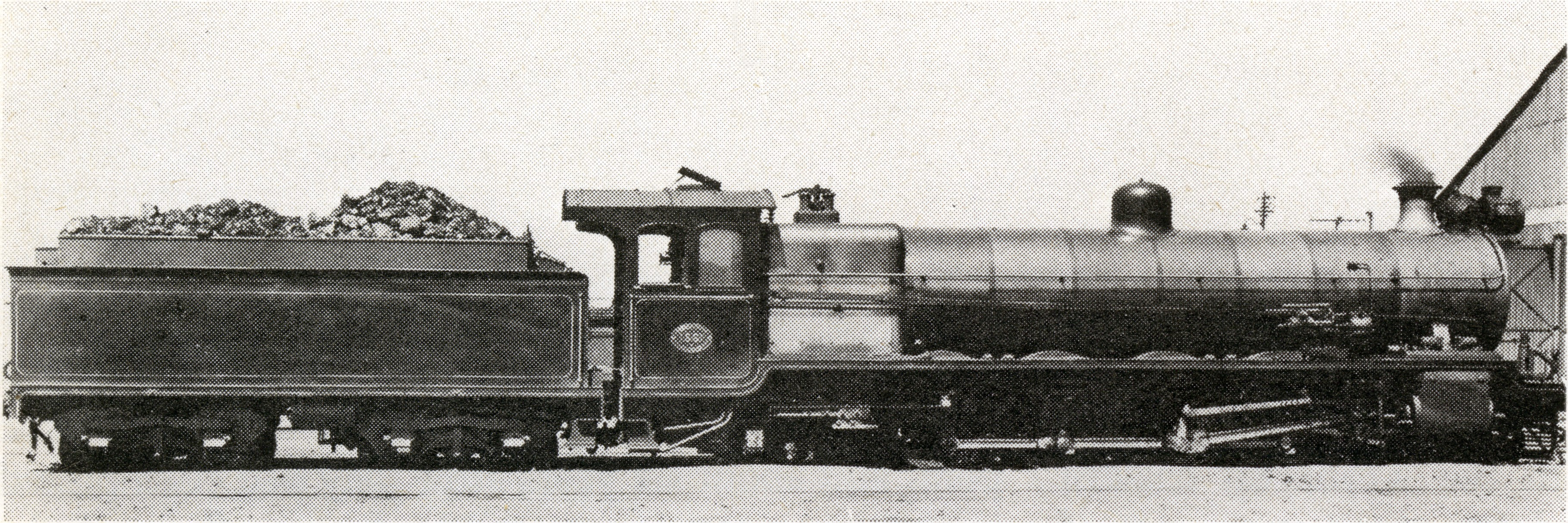 South African Railways Class 15 no. 1561